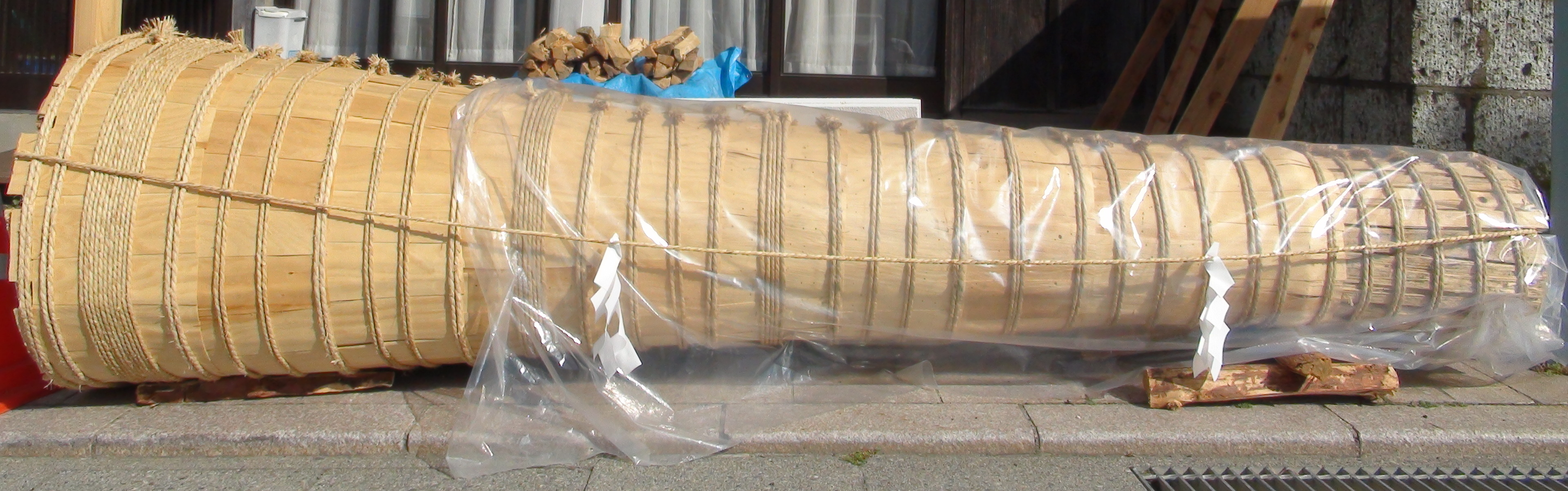 Yoshida Fire Festival large torches placed on the sidewalk